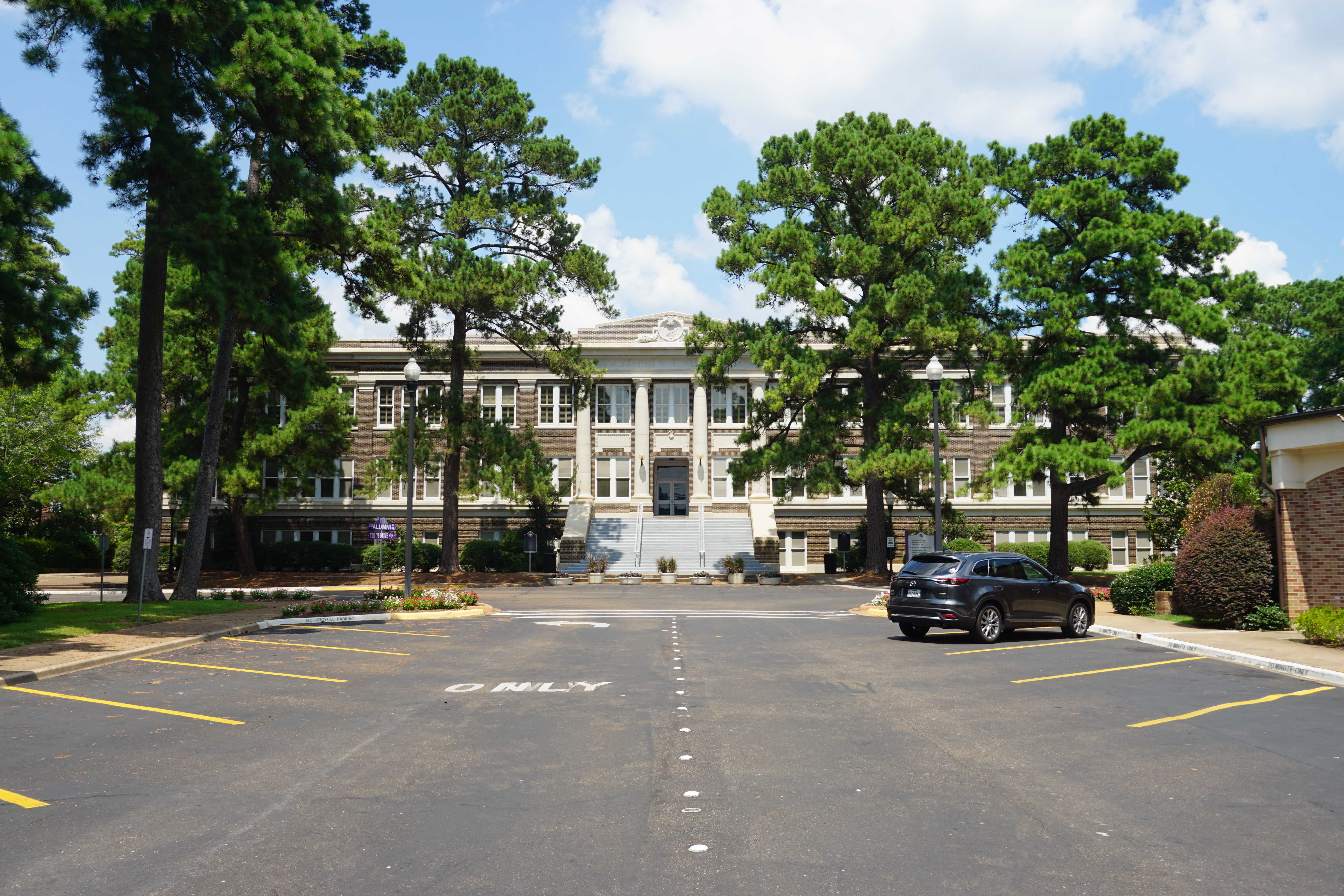 The Austin Building on the campus of Stephen F. Austin State University in Nacogdoches, Texas (United States).